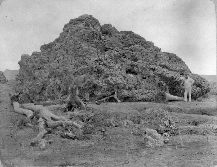 Coral block thown onto the shore of Jawa after the Krakatau eruption of 1883